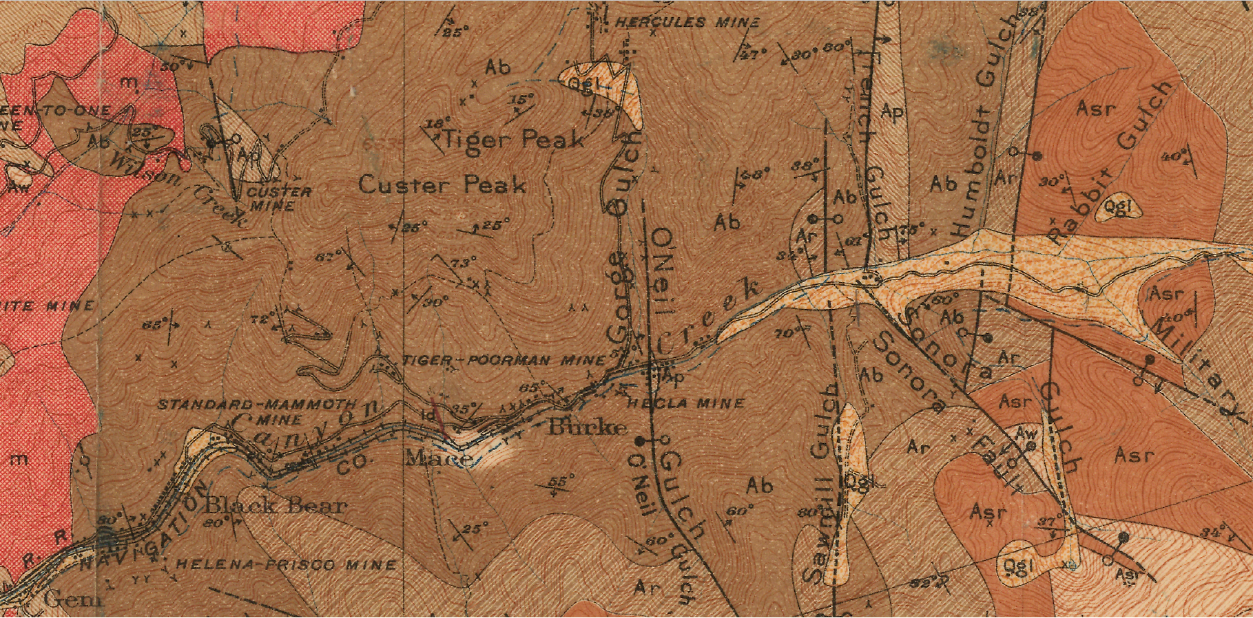 1907 Burke Idaho geologic map, where m is monzonite and syenite, Ap is Prichard Slate, Ab is Burke Formation, Ar is Revett Quartzite, Asr is St. Regis Formation, Aw is Wallace Formation, Asp is Striped Peak Formation, Tg are Tertiary terrace gravels, Qgl is Quaternary glacial deposits, Qal is Quaternary alluvium, x is a prospect pit and y is a tunnel